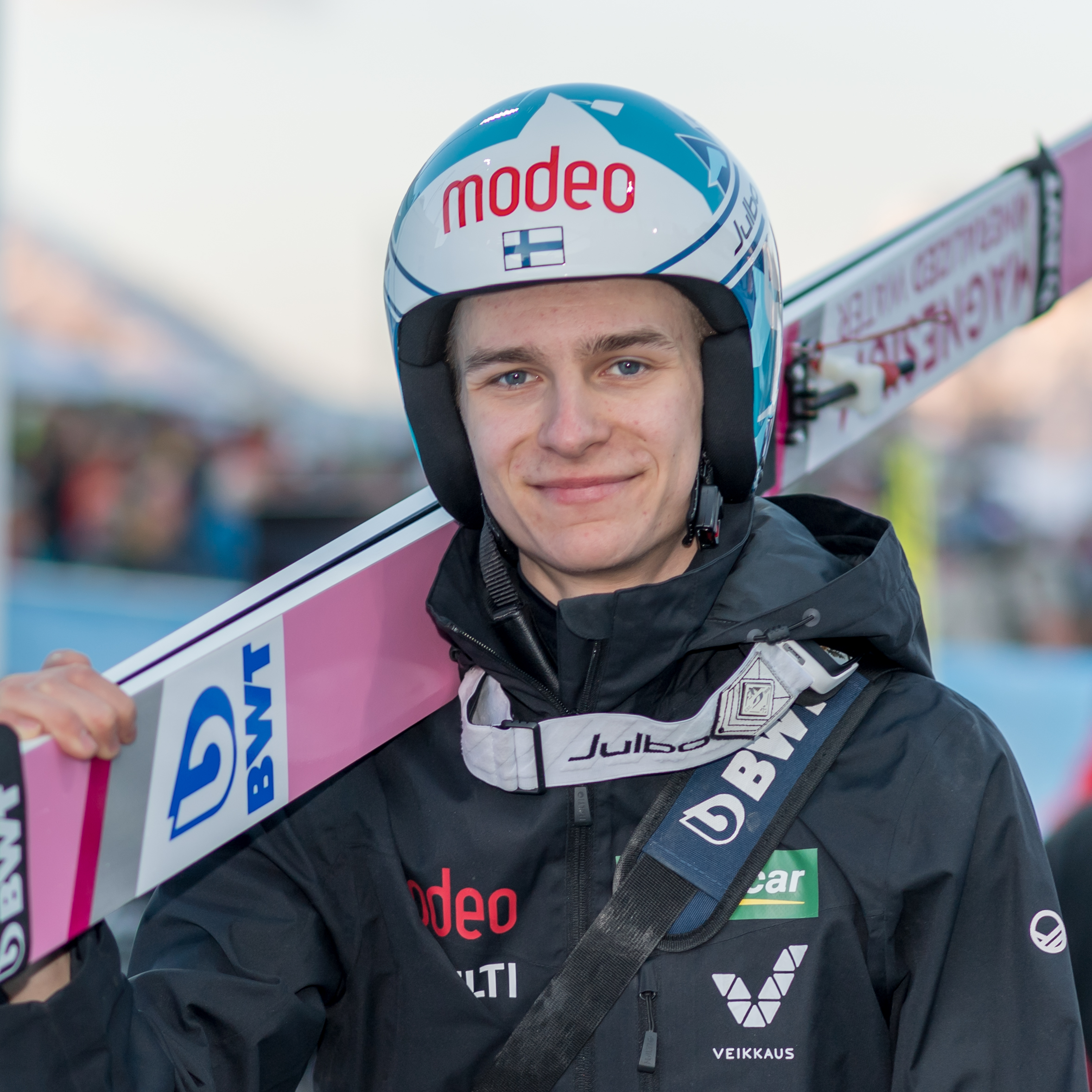 Seefeld, February 28, 2019: FIS Nordic World Ski Championships, Ski Jumping Qualification.